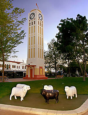 Description: Clock tower in the center of Hastings, New Zealand, near the city's somewhat infamous concrete sheep. Those two together are unmistakably Hastings. Unknown individuals seem to find an unending source of amusement in bringing real sheep droppings and strategically depositing them behind the concrete versions. A sculptor should make some permanent small black stones for the sheep. Photo courtesy of the Hastings District Council. The clock tower is listed with the New Zealand Historic Places Trust, Register number: 1075.